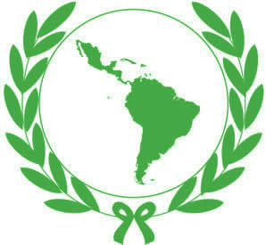 Transparent version of the logo